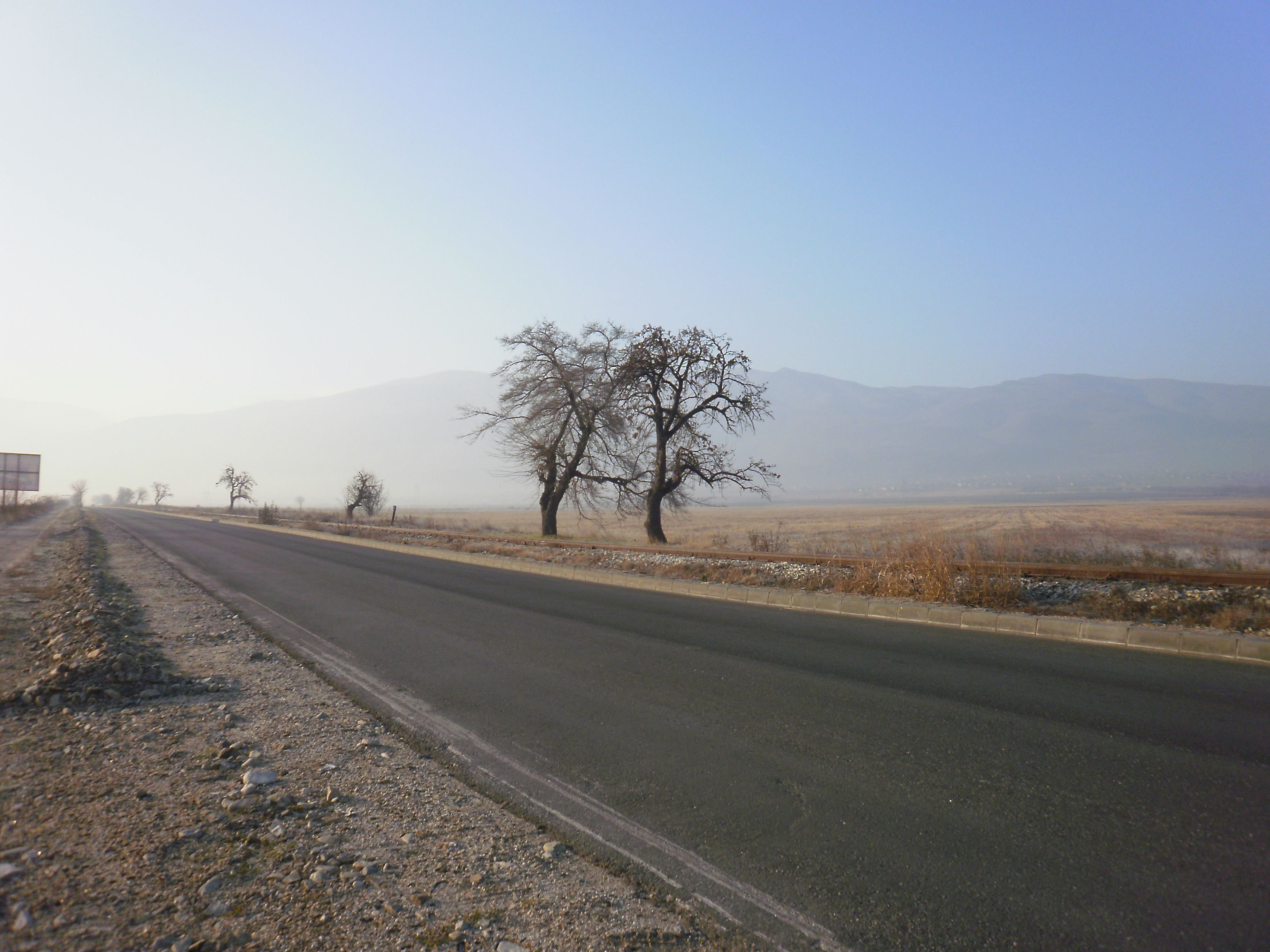 Road 8402, Bulgaria